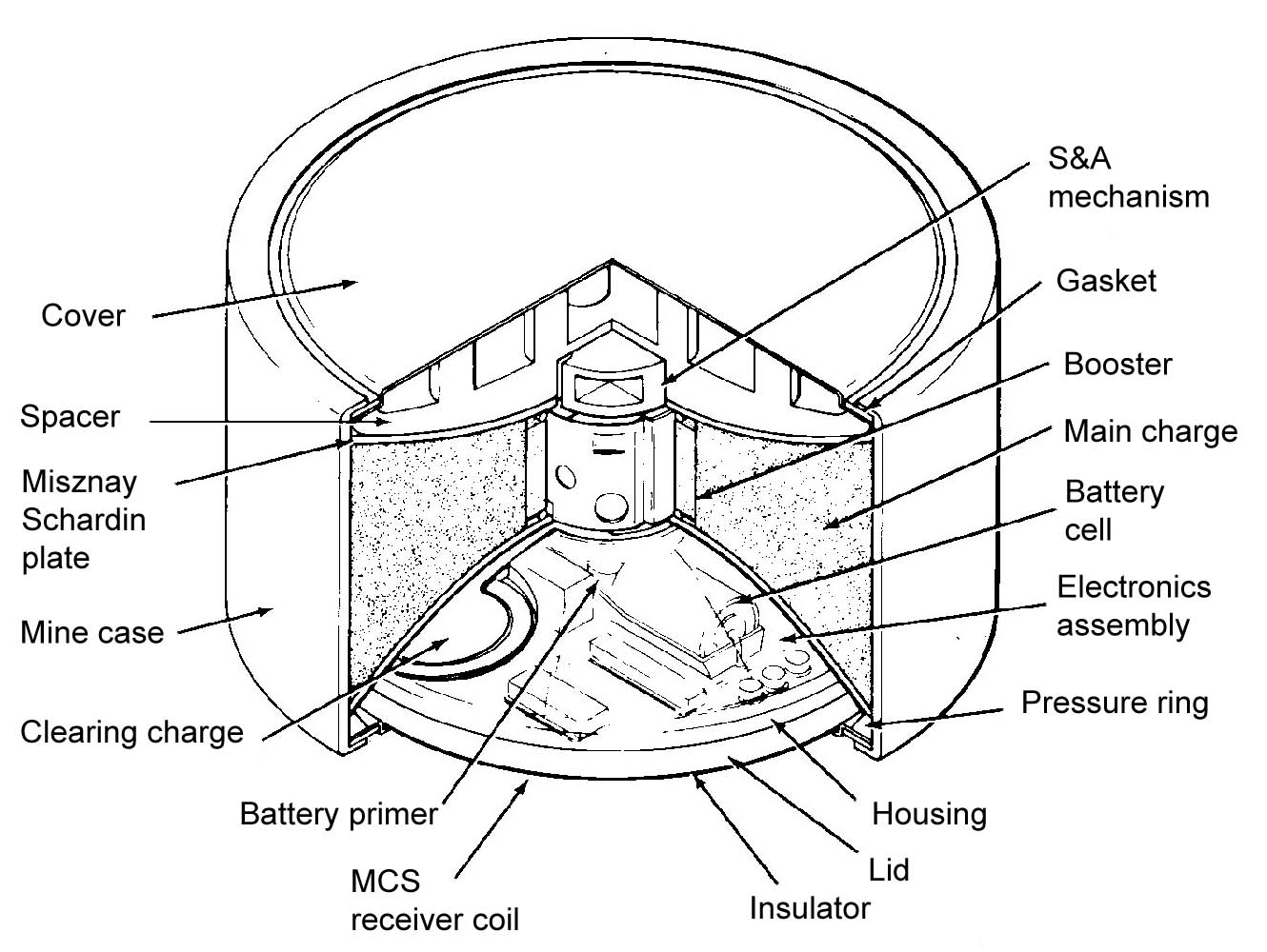 A cutaway of an M75 anti-tank mine.